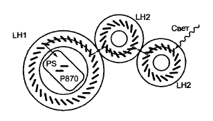 Puple bacteria light-harvesting complex